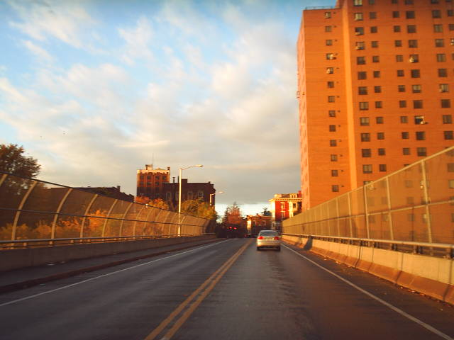 Henry Johnson Boulevard, facing southwest. Albany, New York.